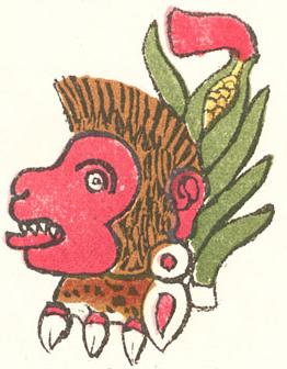 The Aztec day sign ozomatli (monkey).